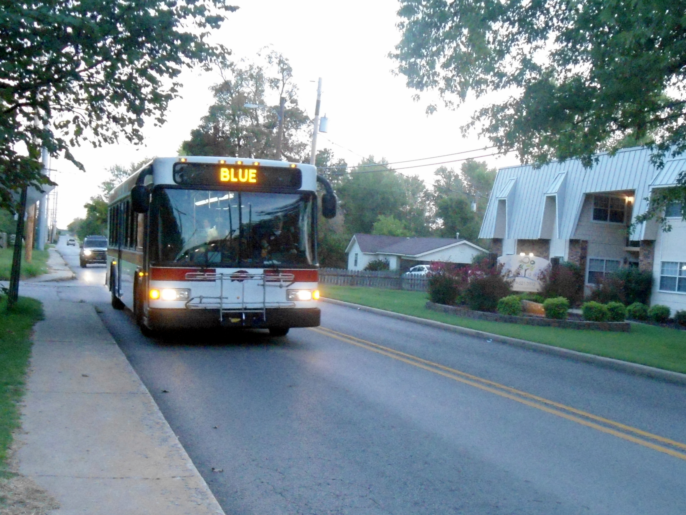 Razorback Transit Blue stopping at North Creekside Apartments